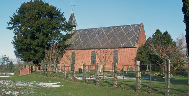 Church of S Raphael and Isidore, Petton, Shropshire, seen from the south